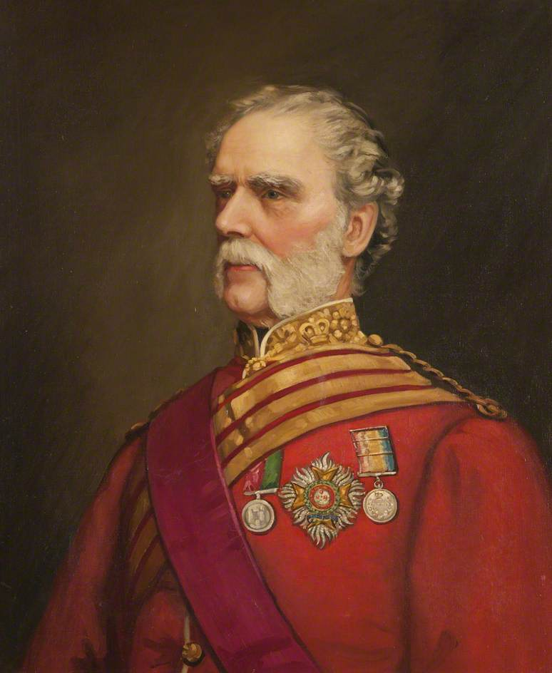 Portrait of General Sir William Wyllie